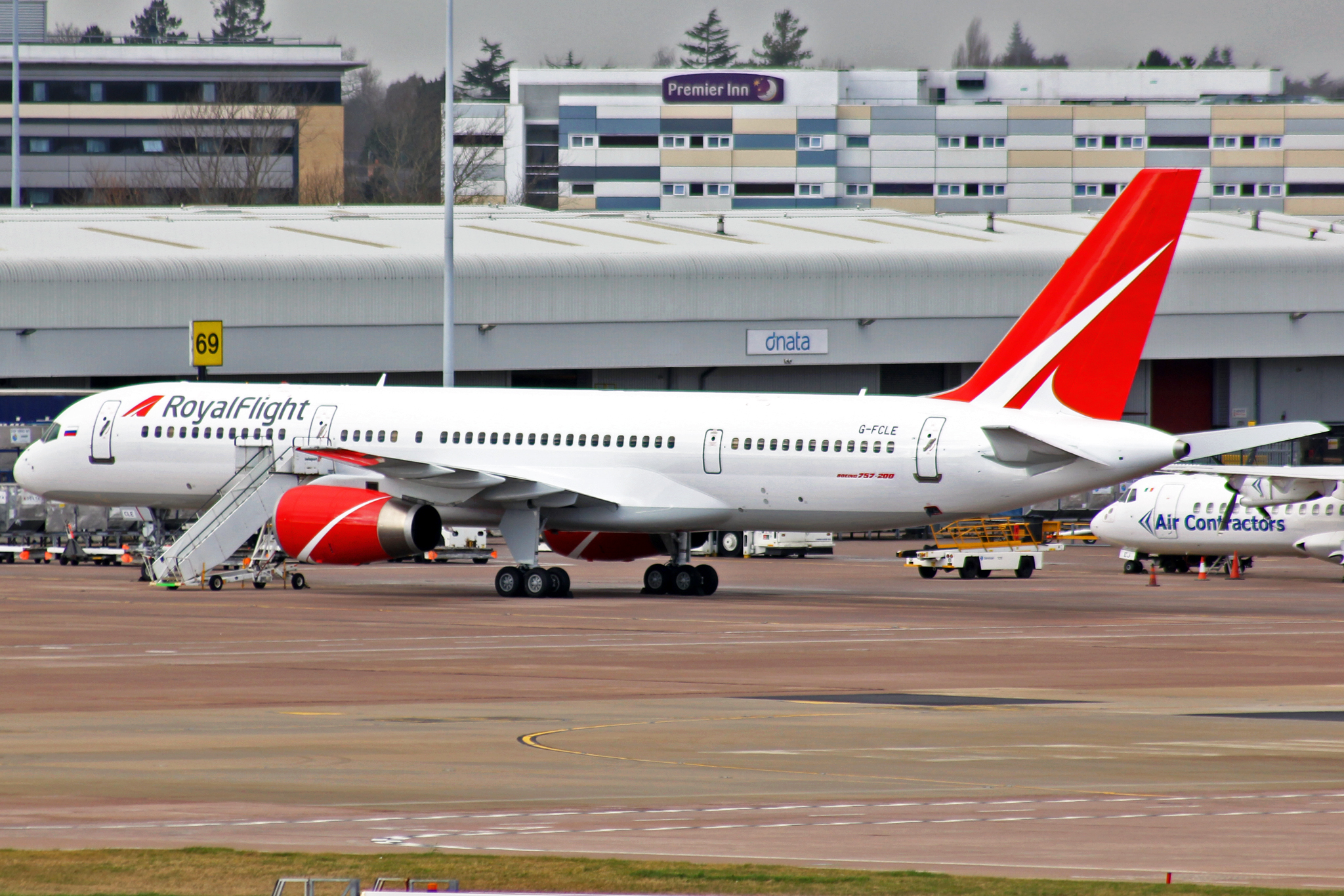 Royal Flight B757-200 G-FCLE at Manchester one month prior to delivery to the airline.